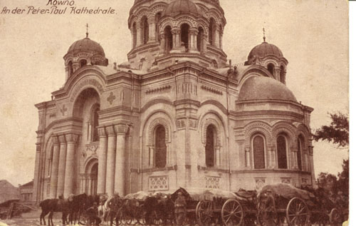 St. Michael the Archangel's Church or the Garrison Church in Kaunas, near German troops.